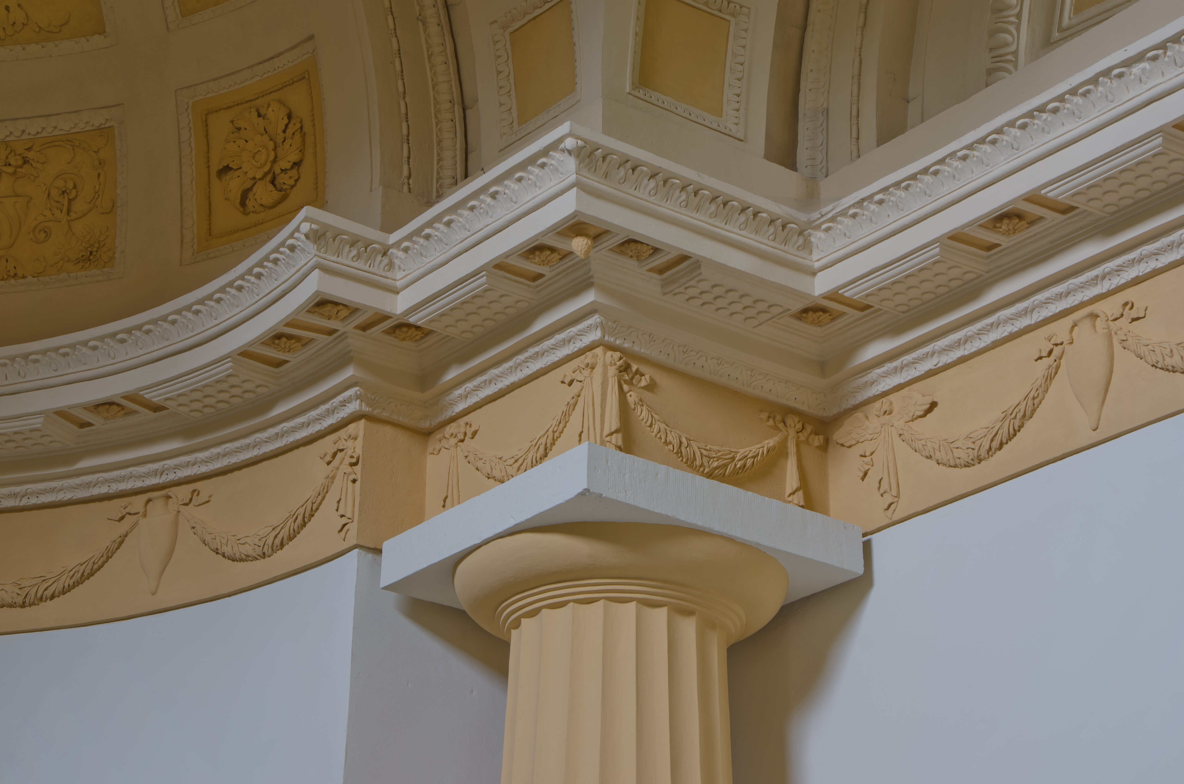 Schimmelmann-Mausoleum - Säulenkapitell This is a photograph of an architectural monument.